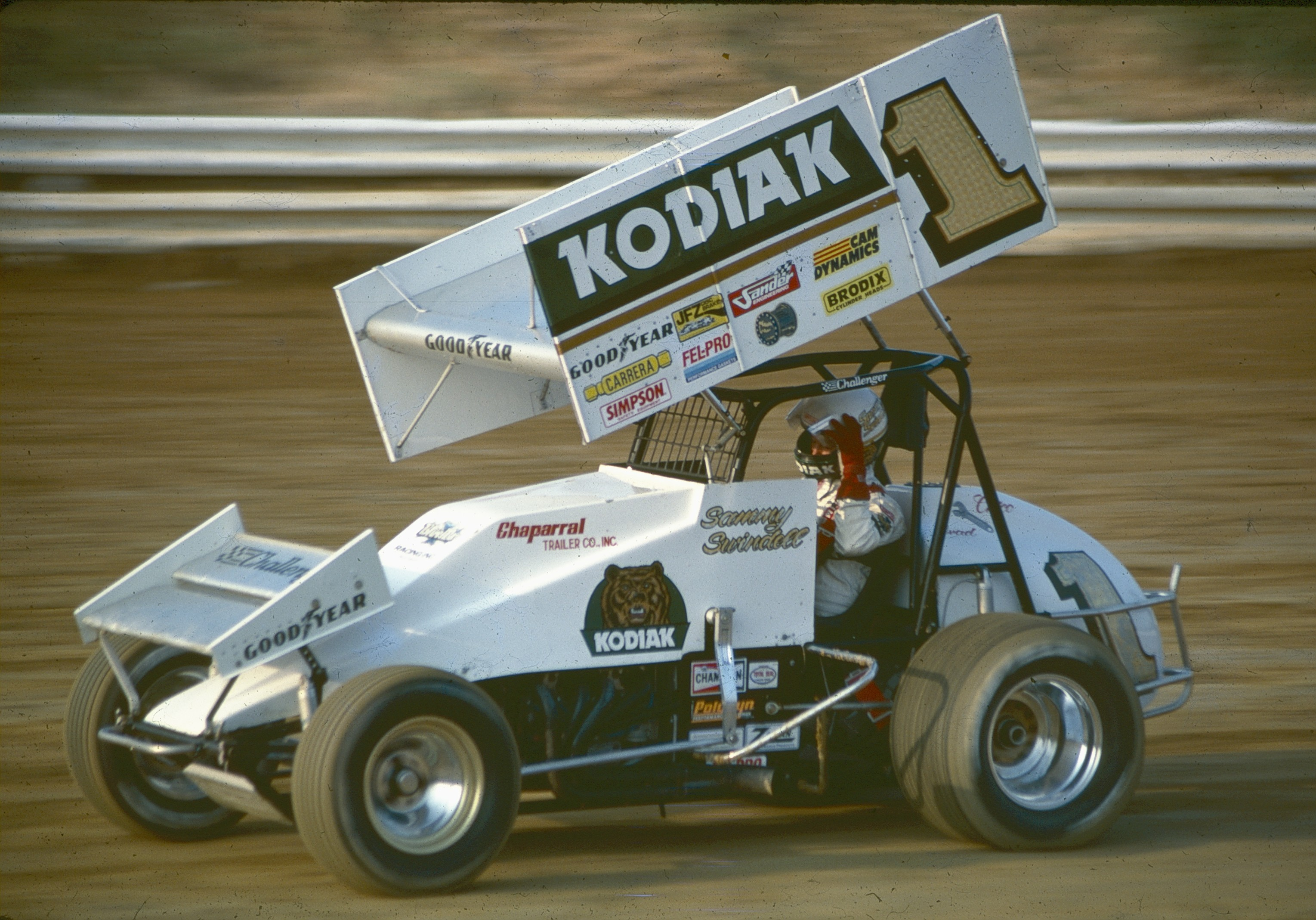 Former World of Outlaws national champion Sammy Swindell's sprint car. Photo by Ted Van Pelt